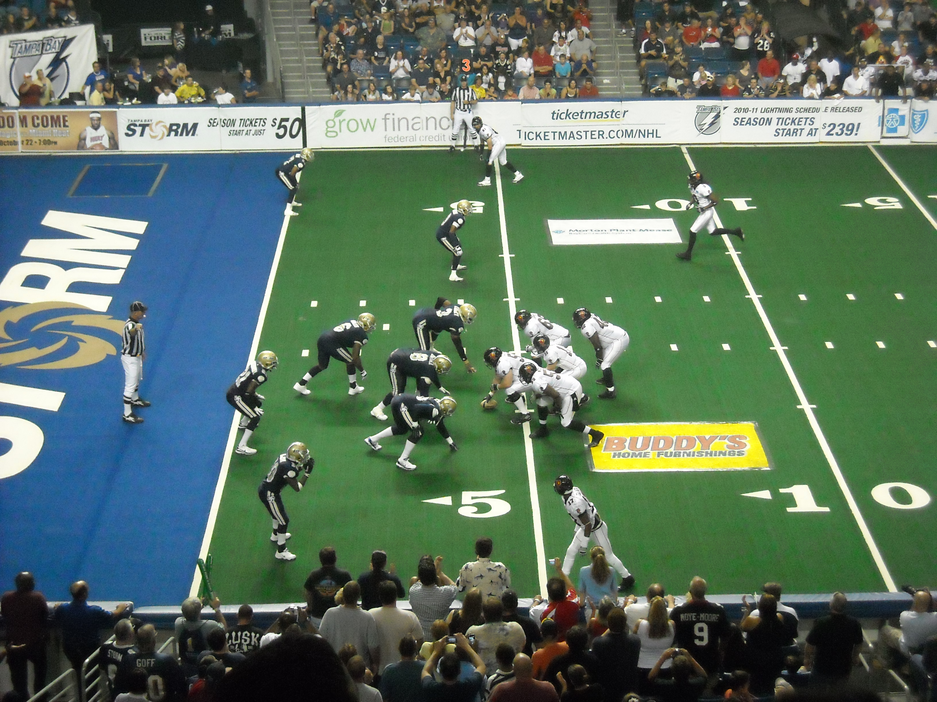 The Orlando Predators prepare to run a play against the Tampa Bay Storm in Arena Football at the St. Pete Times Forum in Tampa, Florida.